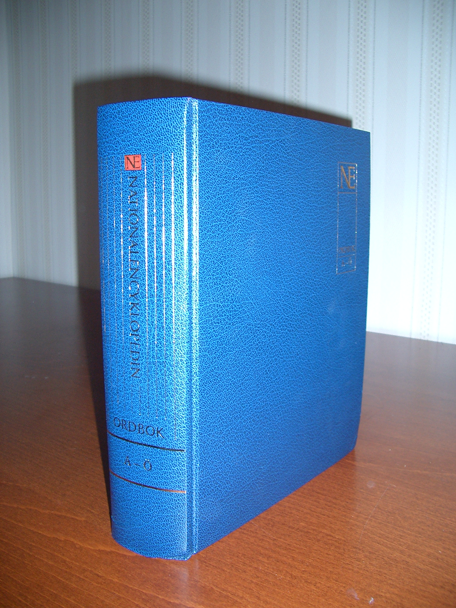 Nationalencyklopedins ordbok